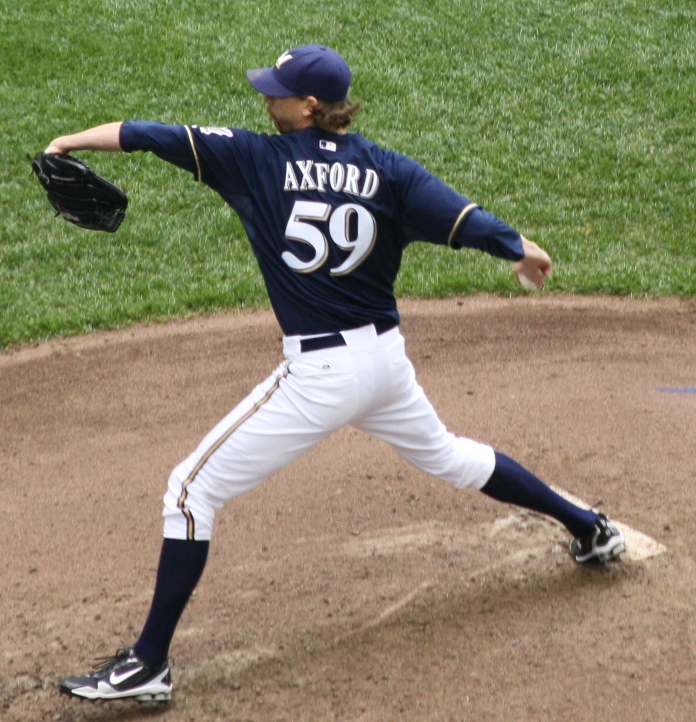 John Axford pitching at Miller Park in 2011.